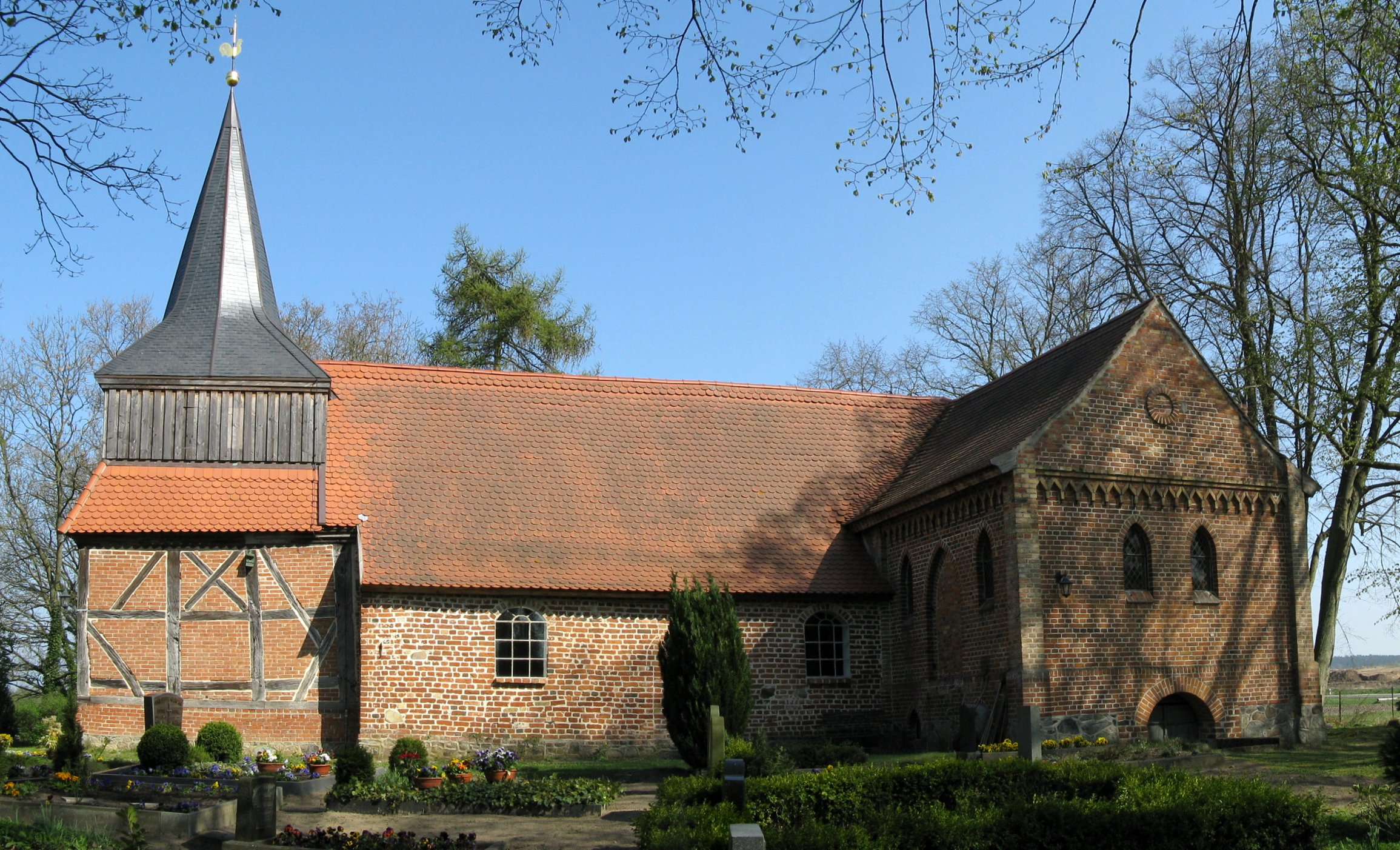 Church in Vorbeck, district Ludwigslust-Parchim, Mecklenburg-Vorpommern, Germany